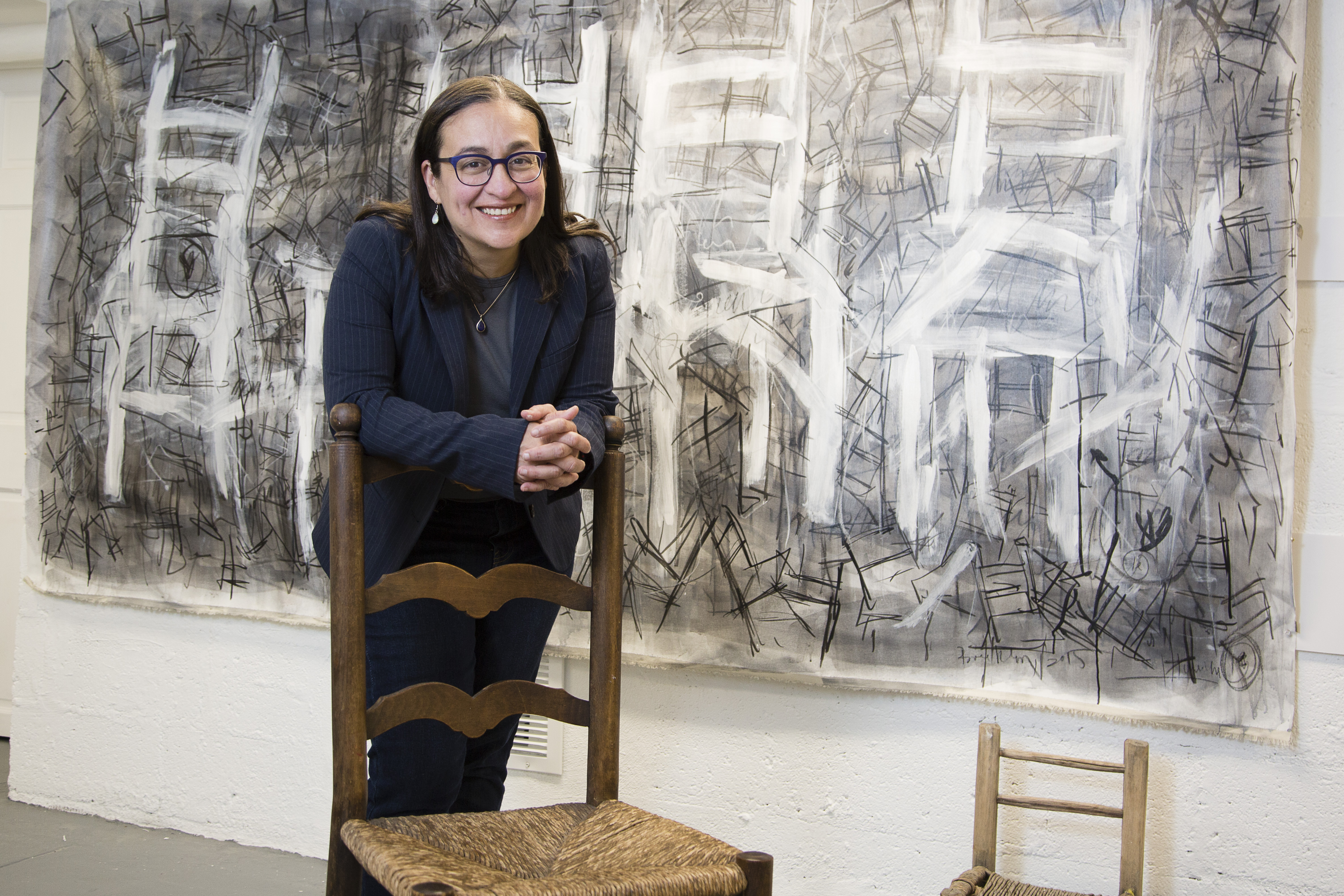 iliana emilia García in her studio